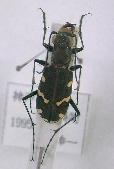 Ainu tigher beetle , Cicindela gemmata aino . in insectarium, at Sayo-cho Konchuka. Sayo-town, Hyogo-pref, Japan